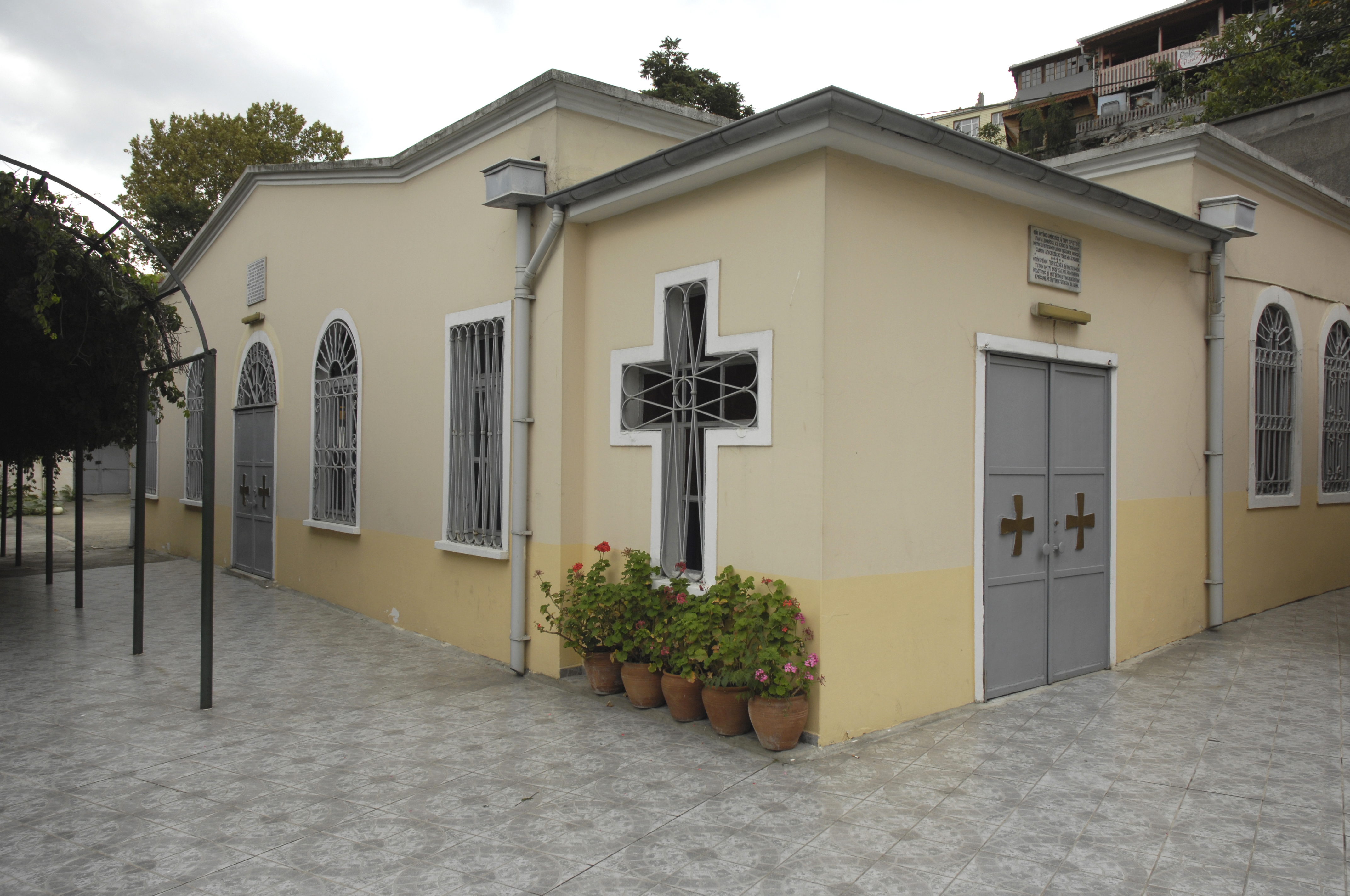 Part of the modern complex